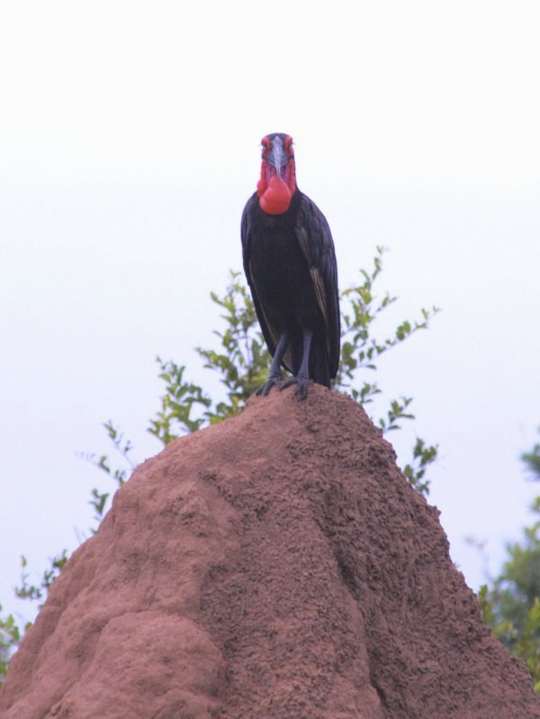 Southern Ground Hornbill on Termite Mound near Mopani, Kruger National Park, South Africa.